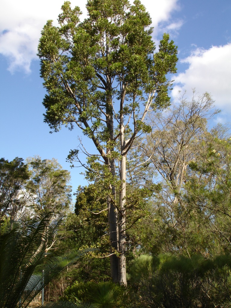 Taken at Maranoa Gardens by HelloMojo 13:43, 8 April 2007 (UTC)